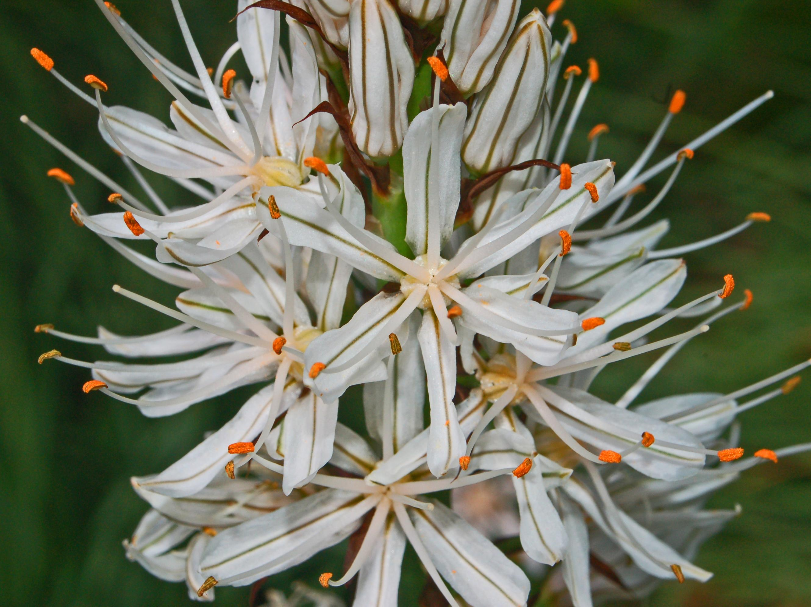 Asphodelus macrocarpus - Creto, Genova, Italy